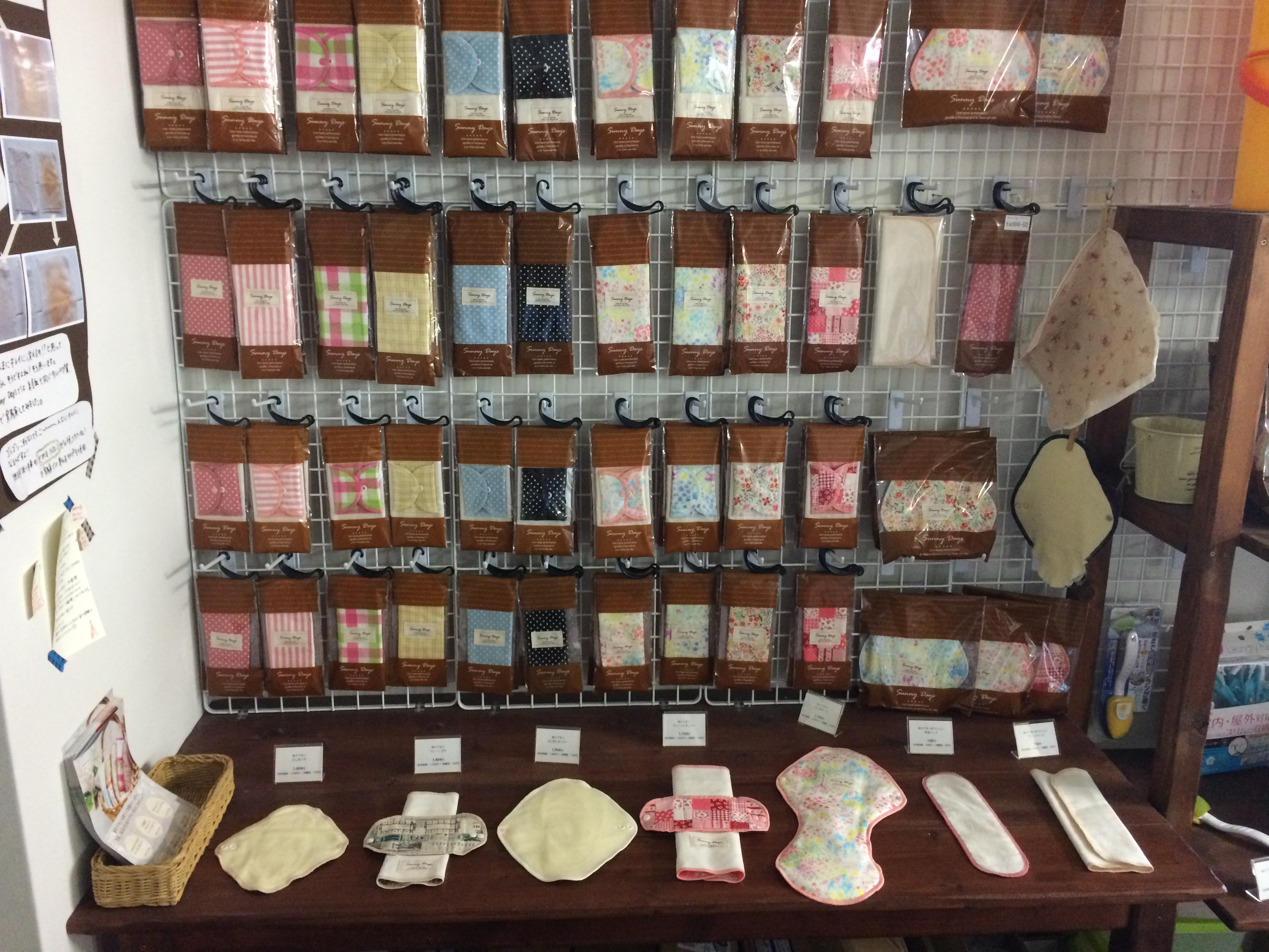 20150907-Sanitary towels,Sunny Days(UP SIDE)アップサイド社製布ナプキン